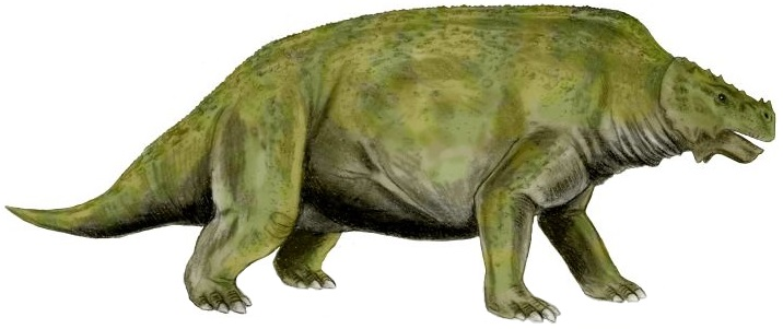 Scutosaurus karpinskii, a pareiasaur from the Late Permian of Russia, pencil drawing (reconstruction after Carroll, 1988)